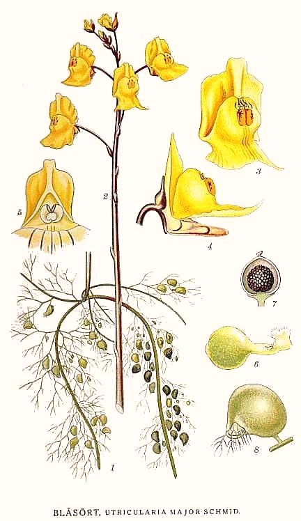 Utricularia australis R. Br., syn. U. major Schmidel Original Description Blåsört, Utricularia major Schmid.